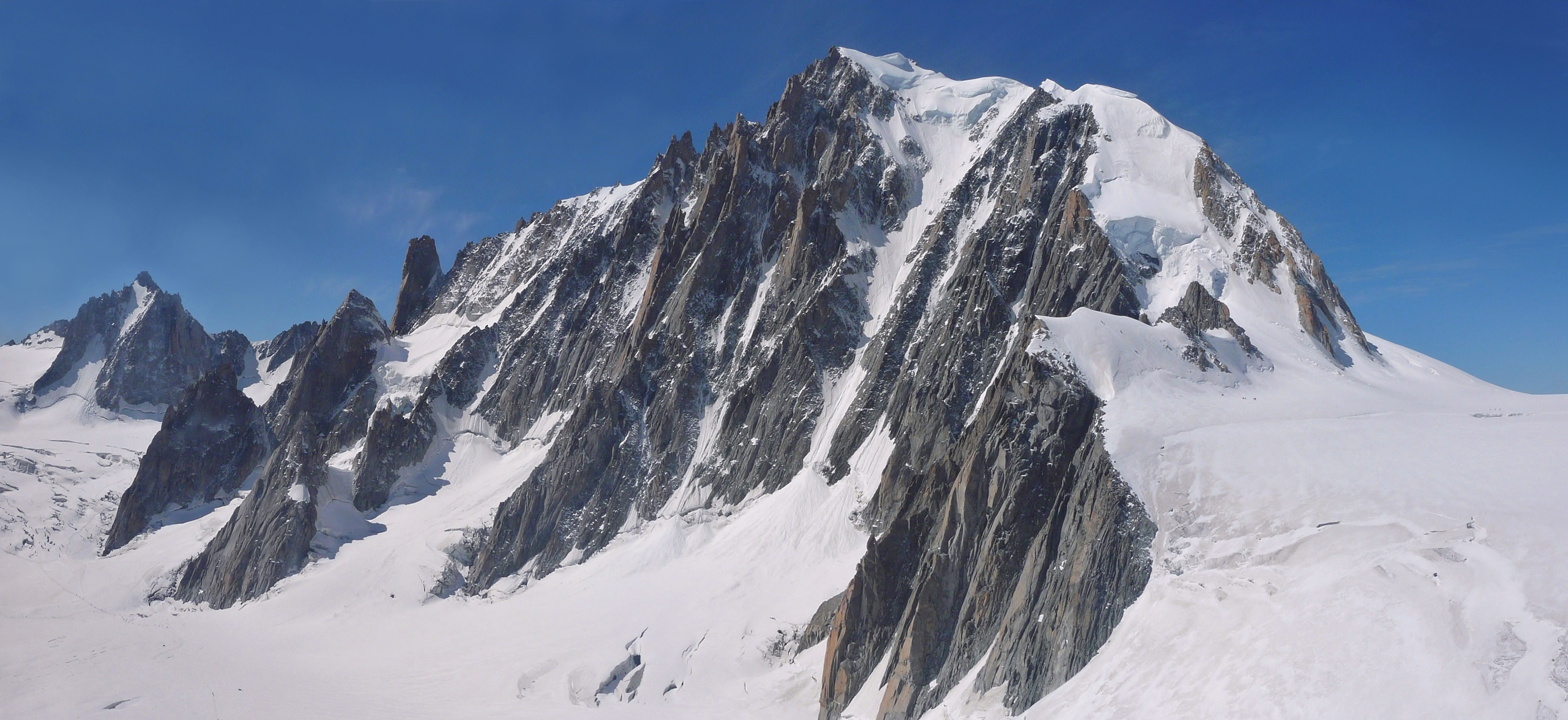 Mont Blanc du Tacul as seen from a telecabine between Punta Helbronner and Aiguille du Midi in 2009 July.